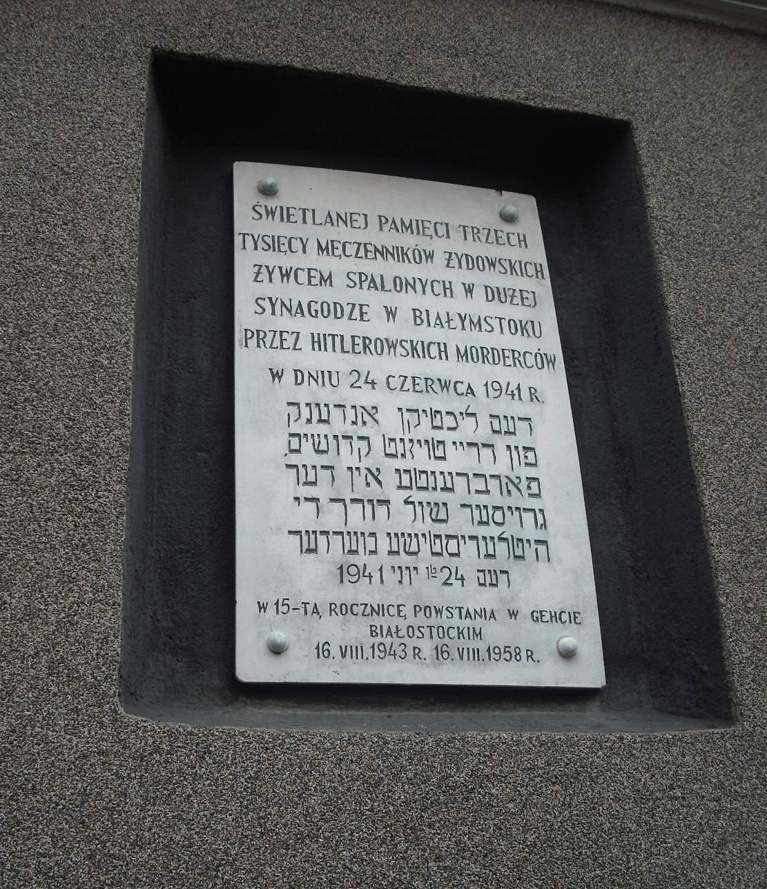 Plaque commemorating Jews who perished in Great Sinagogue of Bialystok